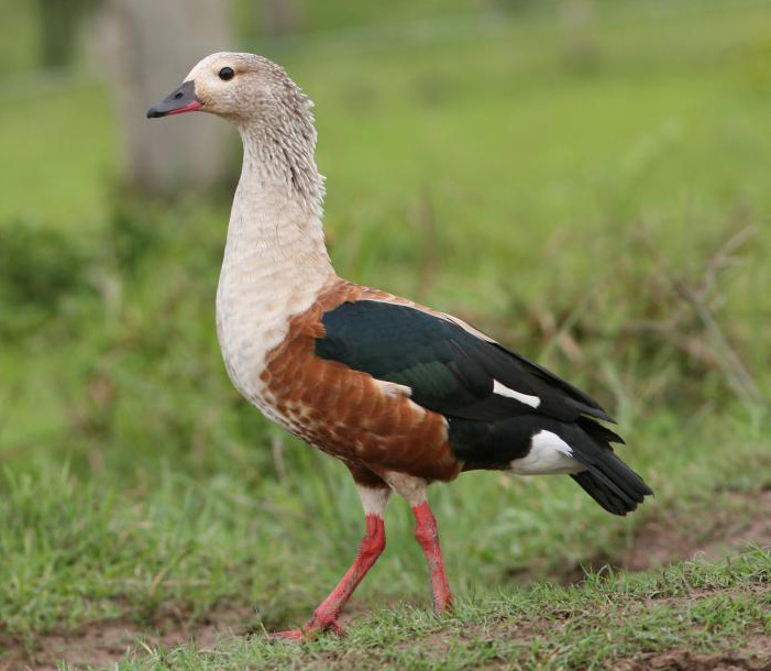 Orinico Goose in Los Llanos (flatlands), Venezuela